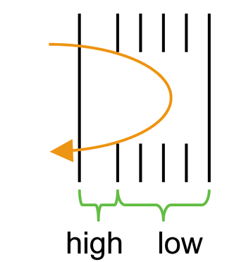 Double stage reflectron